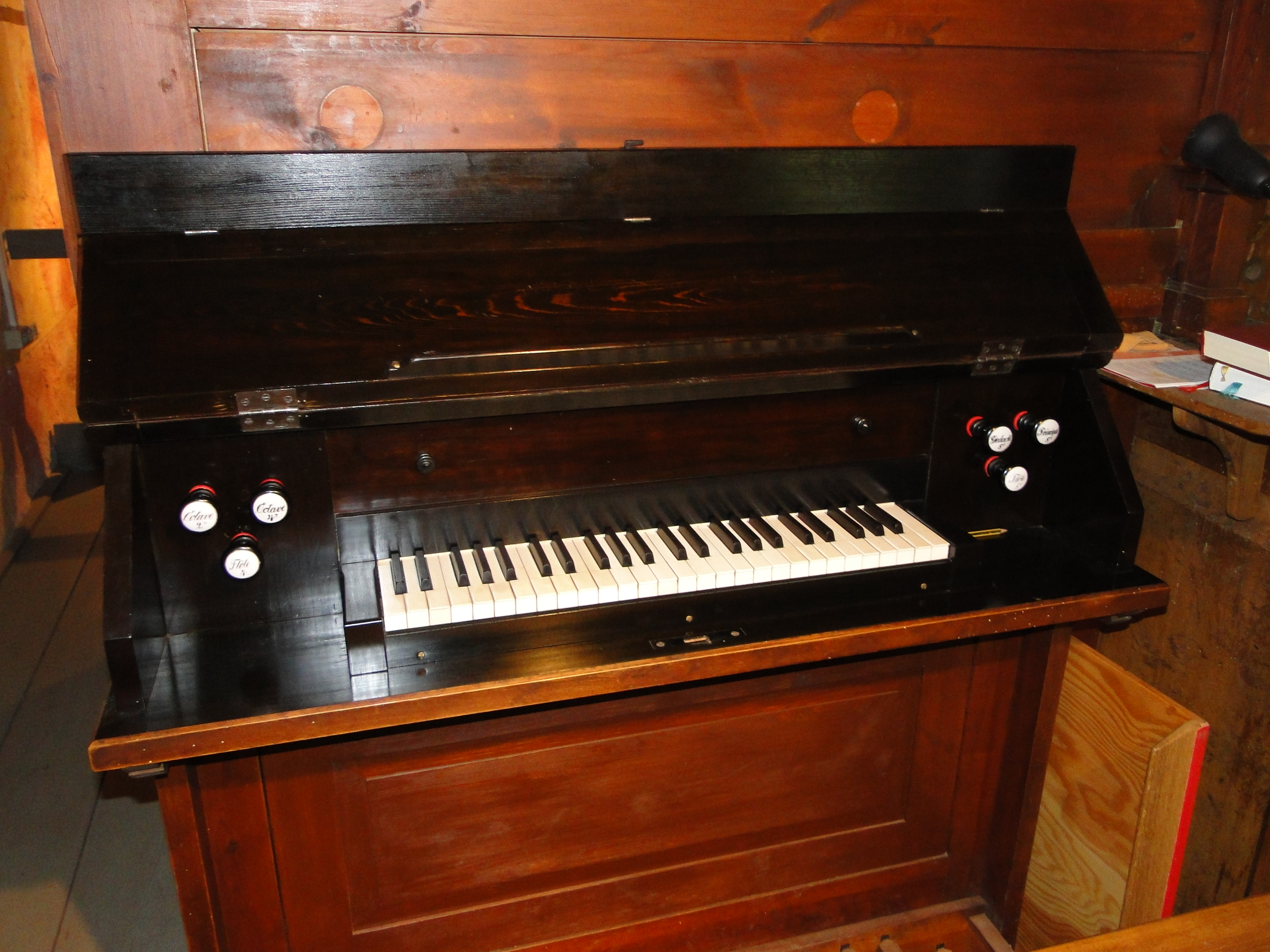 Church in Wamckow, district Ludwigslust-Parchim, Mecklenburg-Vorpommern, Germany Pipe organ